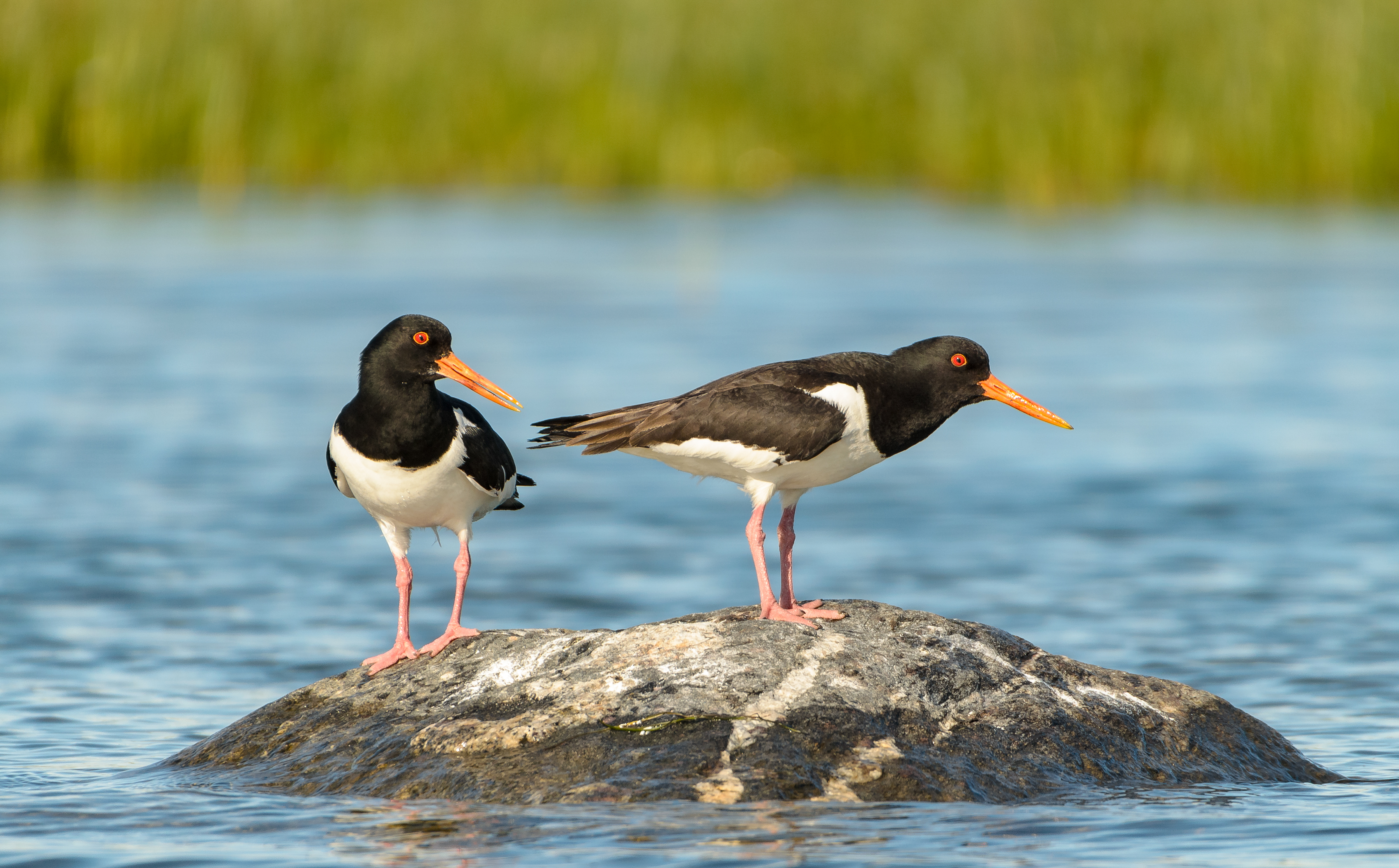 Eurasian oystercatchers in Western Estonian coast